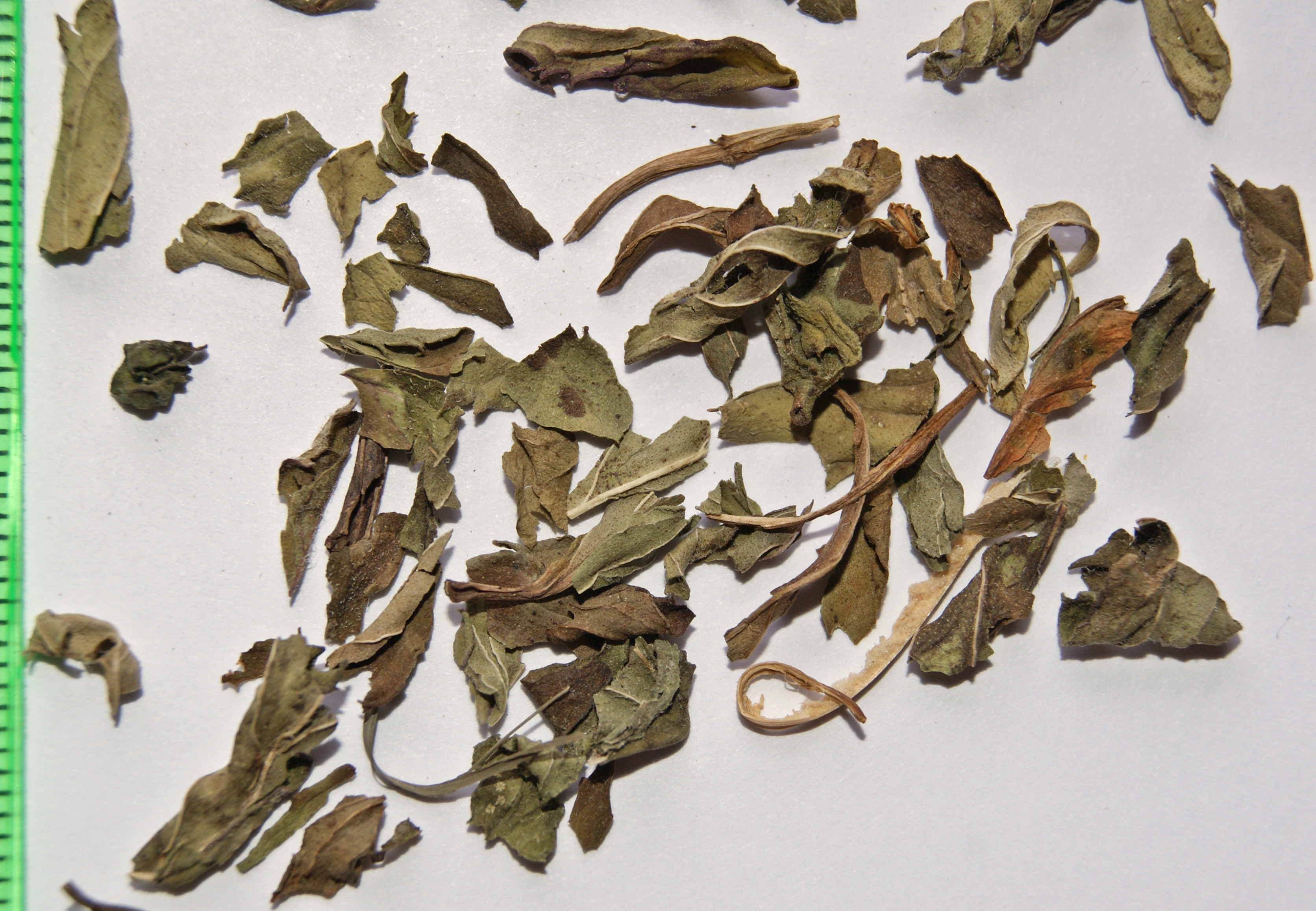 Mentha x piperita